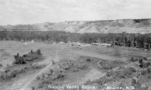 Photographic postcard of Peaceful Valley Ranch, Medora